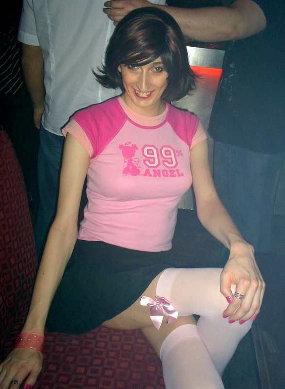 Showing off stockings and garter at a party.